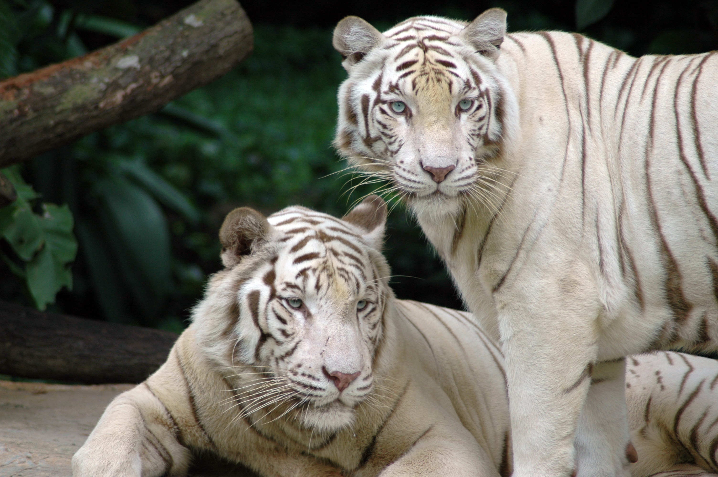 Singapore Zoological Gardens White Tigers.